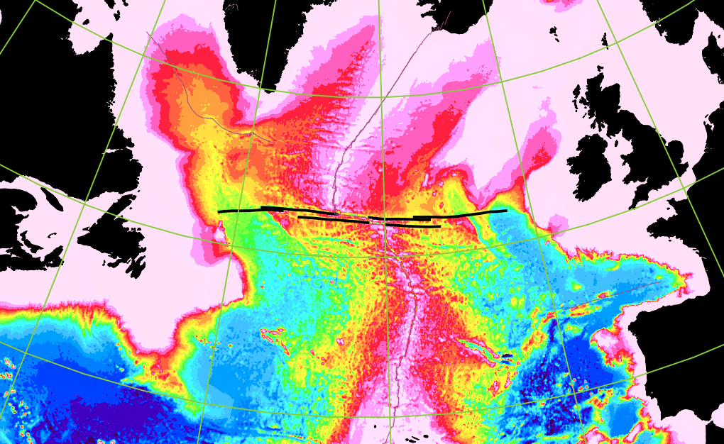 Charlie-Gibbs Fracture Zone, full extent. Technical details: qgis, lcc projection on latitudes 40N and 60N, central longitude 32W, etopo1 with gmt-wysiwyg colours, grid 15 in longitude x 10 in latitude, ridgelines (short spreading segment is in error), continents and islands from gplates sample data, charlie-gibbs from The Global Seafloor Fabric and Magnetic Lineation Data Base Project